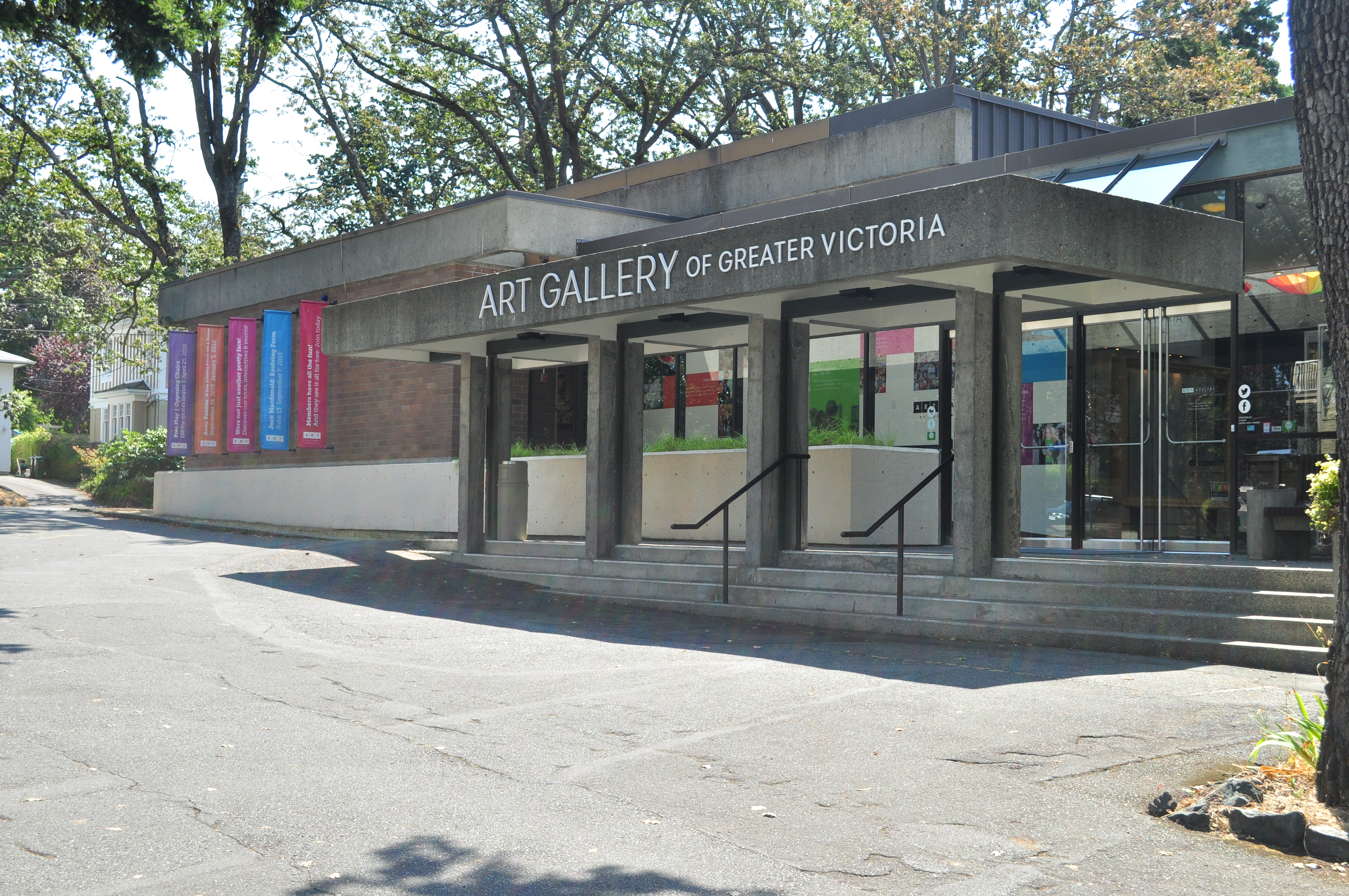 Exterior, Art Gallery of Greater Victoria, Victoria, British Columbia.